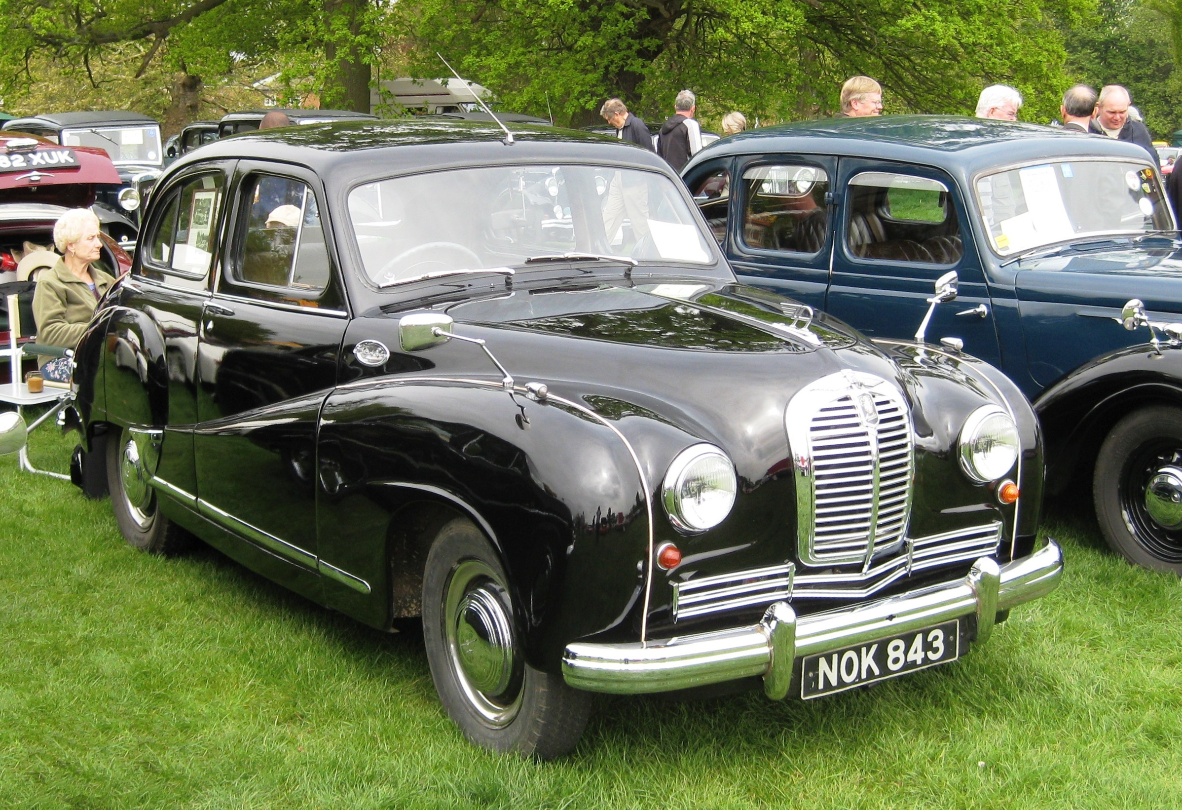 Austin A70 Hereford at Weston Park Transport Fair